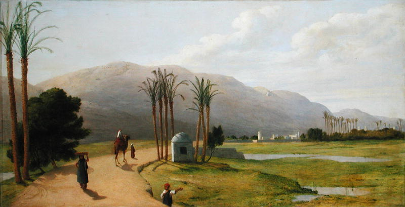 Asyut on the Nile